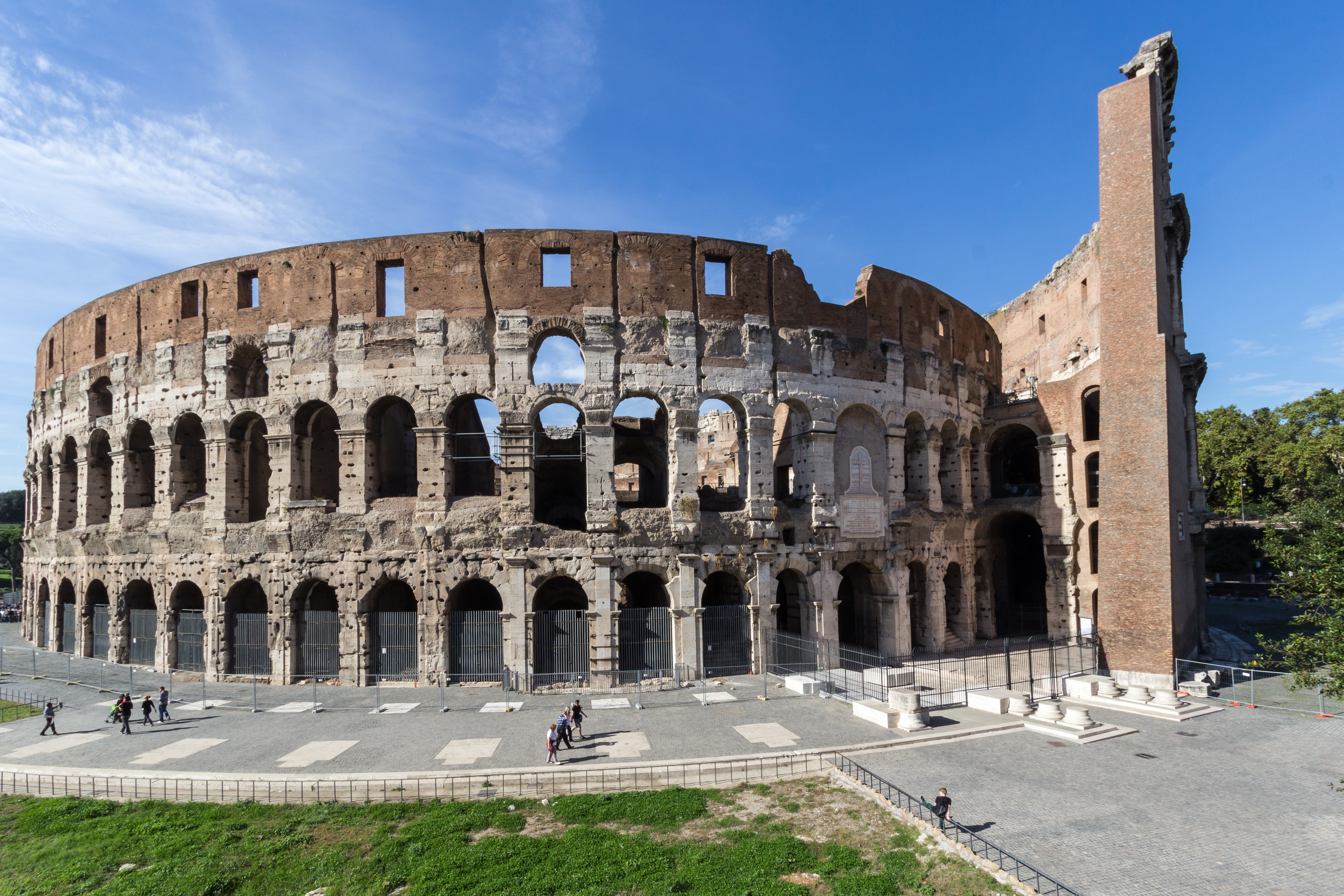 Colosseum, Rome, Italy